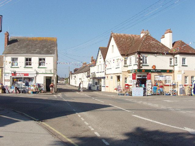 St Merryn shops. At this cross roads are a post office, newsagent, garage and general store.